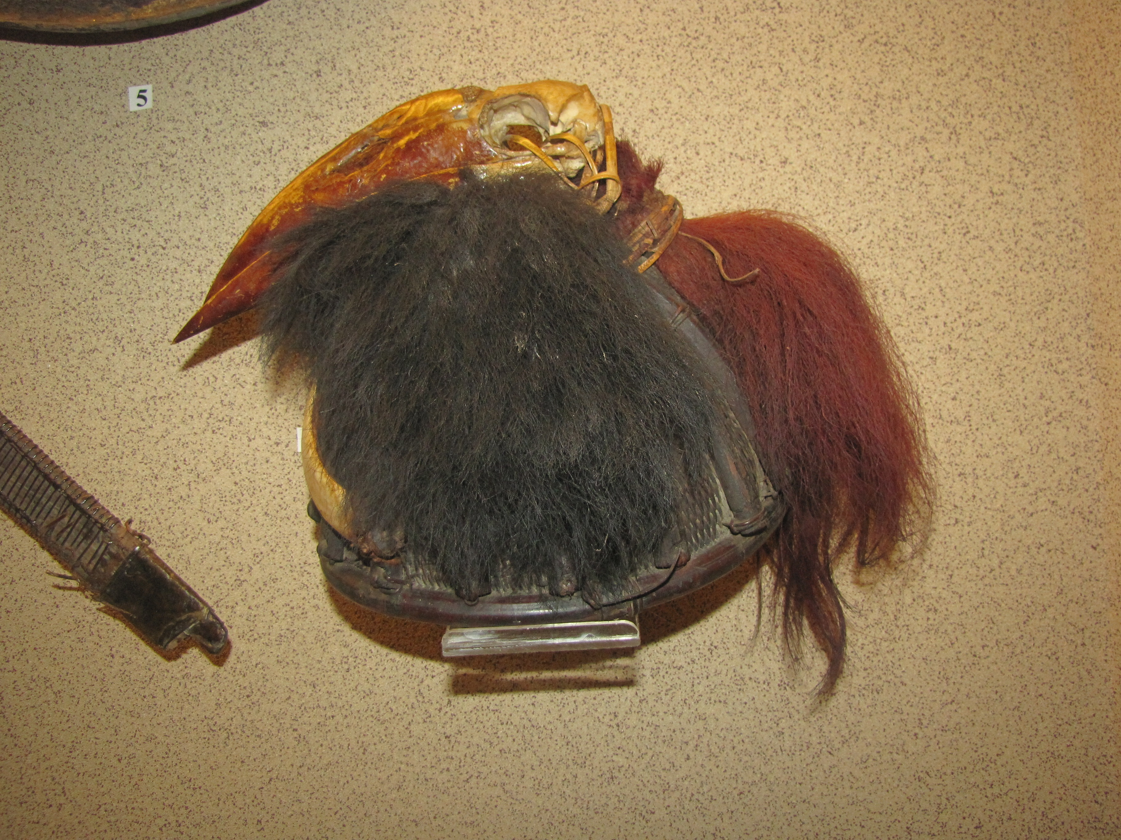 Bulup or Cane hat of the Minyong tribe of East Siang district of Arunachal Pradesh, India. With hornbill beak, probably that of Rufous-coloured hornbill (Aceros nipalensis). Specimen number SMI-441 of Jawaharlal Nehru Museum, Itanagar.